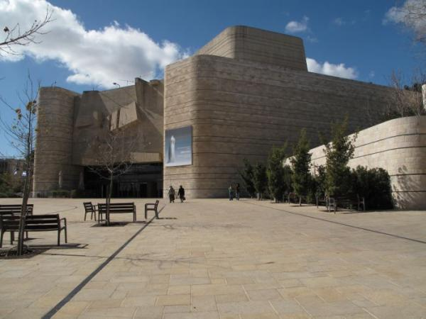 Jerusalem theatre in Talbiya